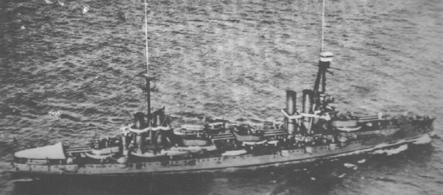 Italian battleship Dante Alighieri